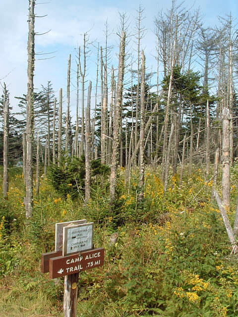 Dead Fraser fir - Abies fraseri trees, killed by the Balsam Wooly Adelgid, on the Camp Alice/Old Mitchell trails at Mount Mitchell State Park, North Carolina. Some healthy Fraser firs survive in the background, and a few cultivars have been found to be resistant to the Balsam Wooly Adelgid in the unique Southern Appalachian spruce-fir forest ecoregion habitat. New, young firs often sprout prolifically under the Blackberry vines that grow in these newly-created open areas, lending hope to a new, healthier generation of Firs. Taken during the Summer of 2003.